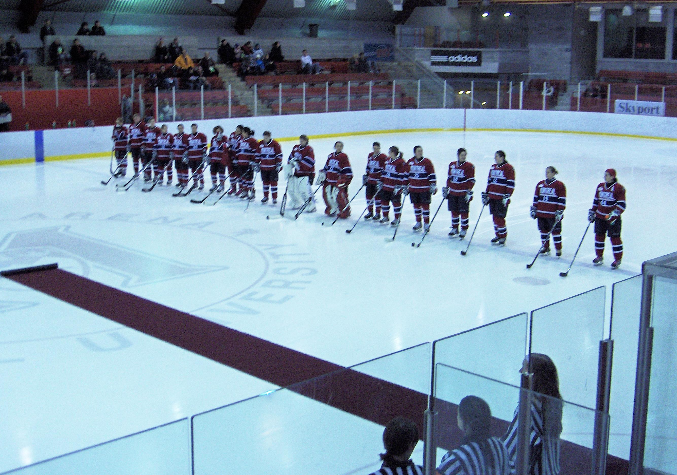 playoff Montreal-Brampton in Canadian Women Hockey League. On March 12 2011 at McConnell Arena (McGill University), Montreal, Canada.